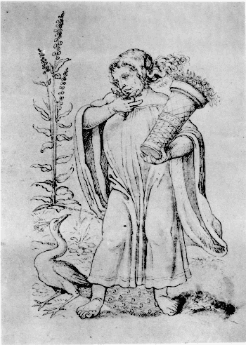 Month of May from in the Chronography of 354 by the 4th century kalligrapher Filocalus. The copies of the original illustrations are pen drawings in a 17th century manuscript from the Barberini collection (Vatican Library, cod. Barberini lat. 2154).